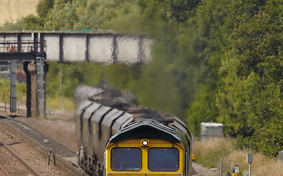 GM heat haze,,,66599 traverses the crossover at Grassmoor working 6M51 Hull - Rugeley PS